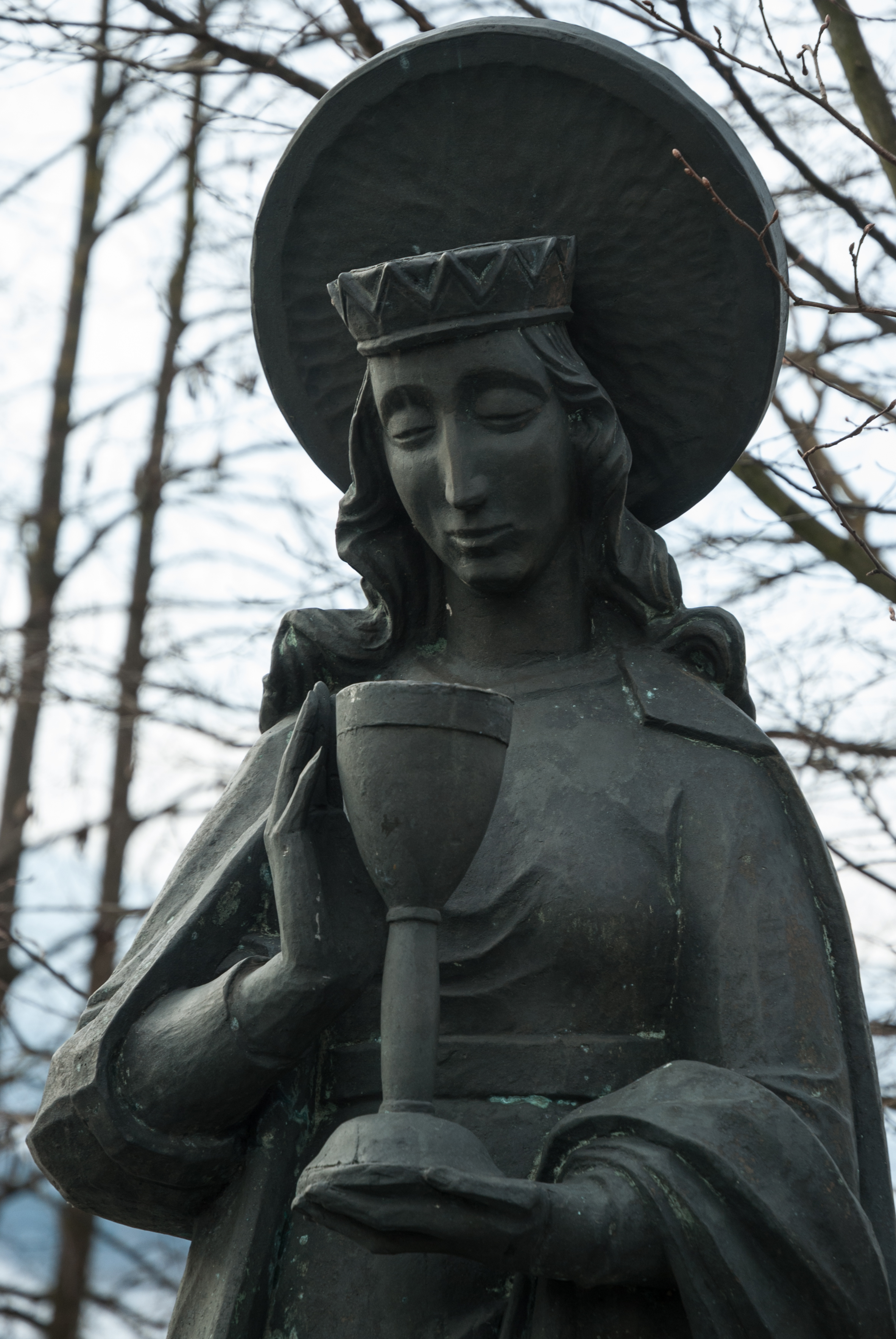 Detail vom Bildstock hl. Barbara in Schwaz bei der Barbarabrücke This media shows the remarkable cultural object in the Austrian state of Tyrol listed by the Tyrolean Art Cadastre with the ID 116419. (on tirisMaps, pdf, more images on Commons, Wikidata)